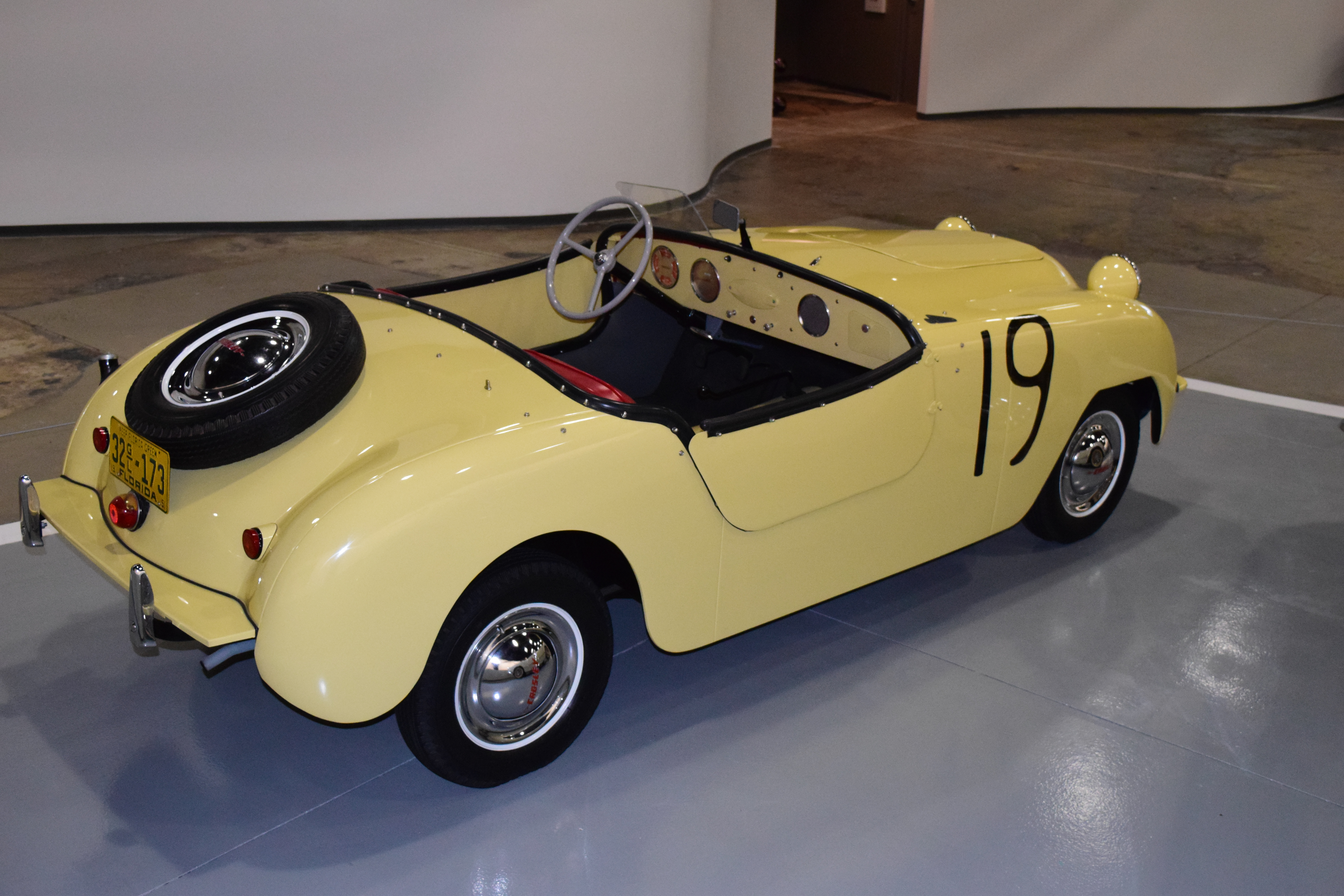 1949 Crosley Hot Shot that won the 1950 Sebring race.